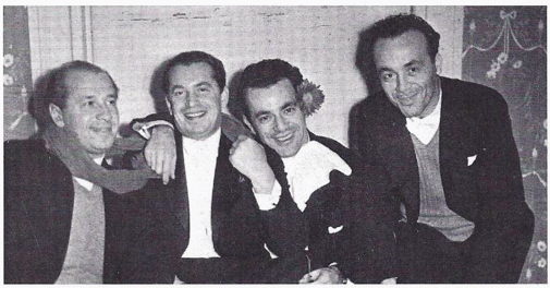 The four Russians. A jubilant Budapest String Quartet shortly after its historic March 20, 1938 concert in Town Hall, New York. From left to right: Josef Roisman, Boris Kroyt, Alexander Schneider, Mischa Schneider.